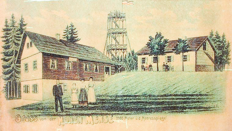 Mount Orlica in Orlickie Mountains. Old Tourist-House.